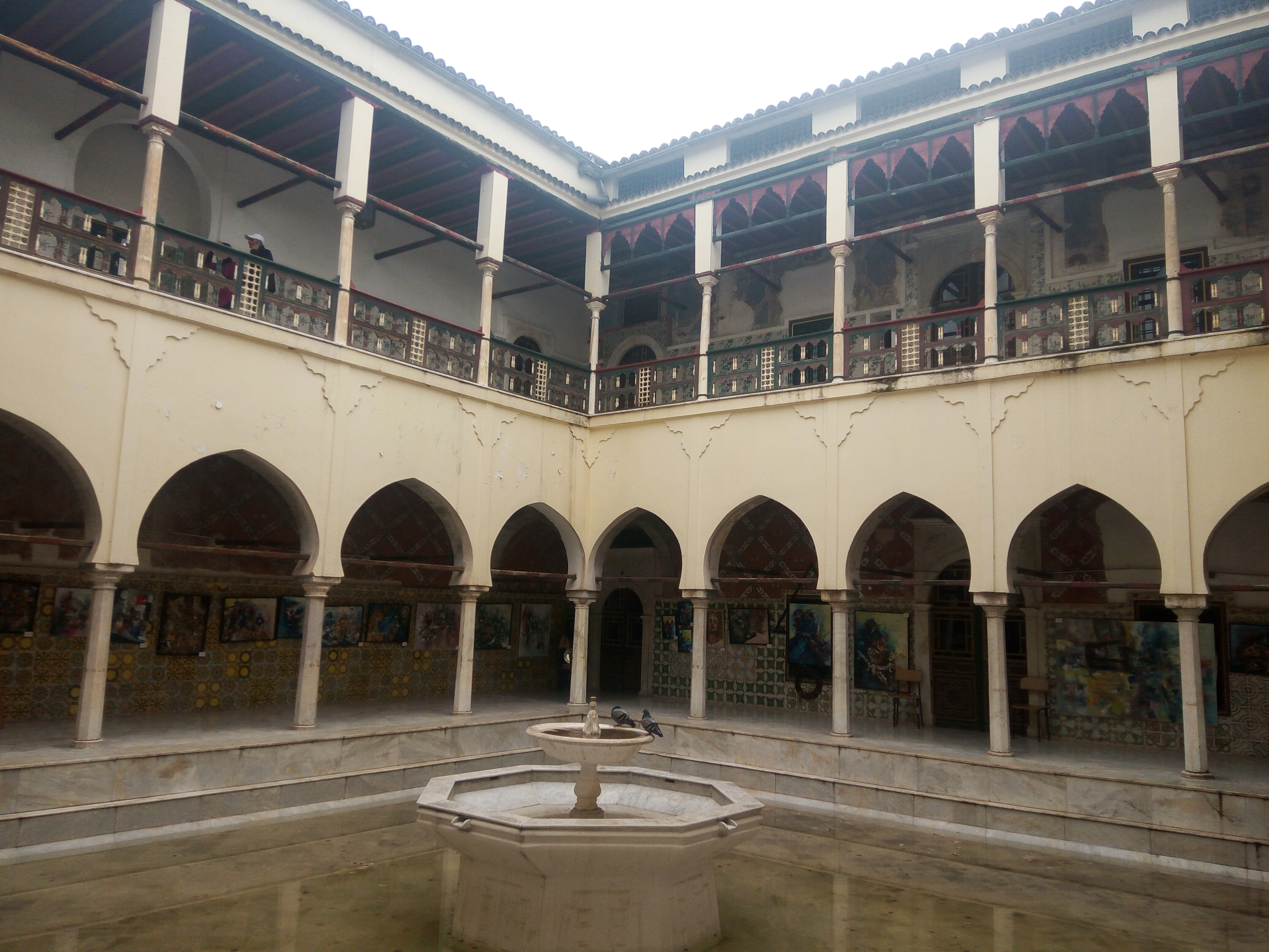 Photo of the bassin of Ahmed Bey's palace. Constantine